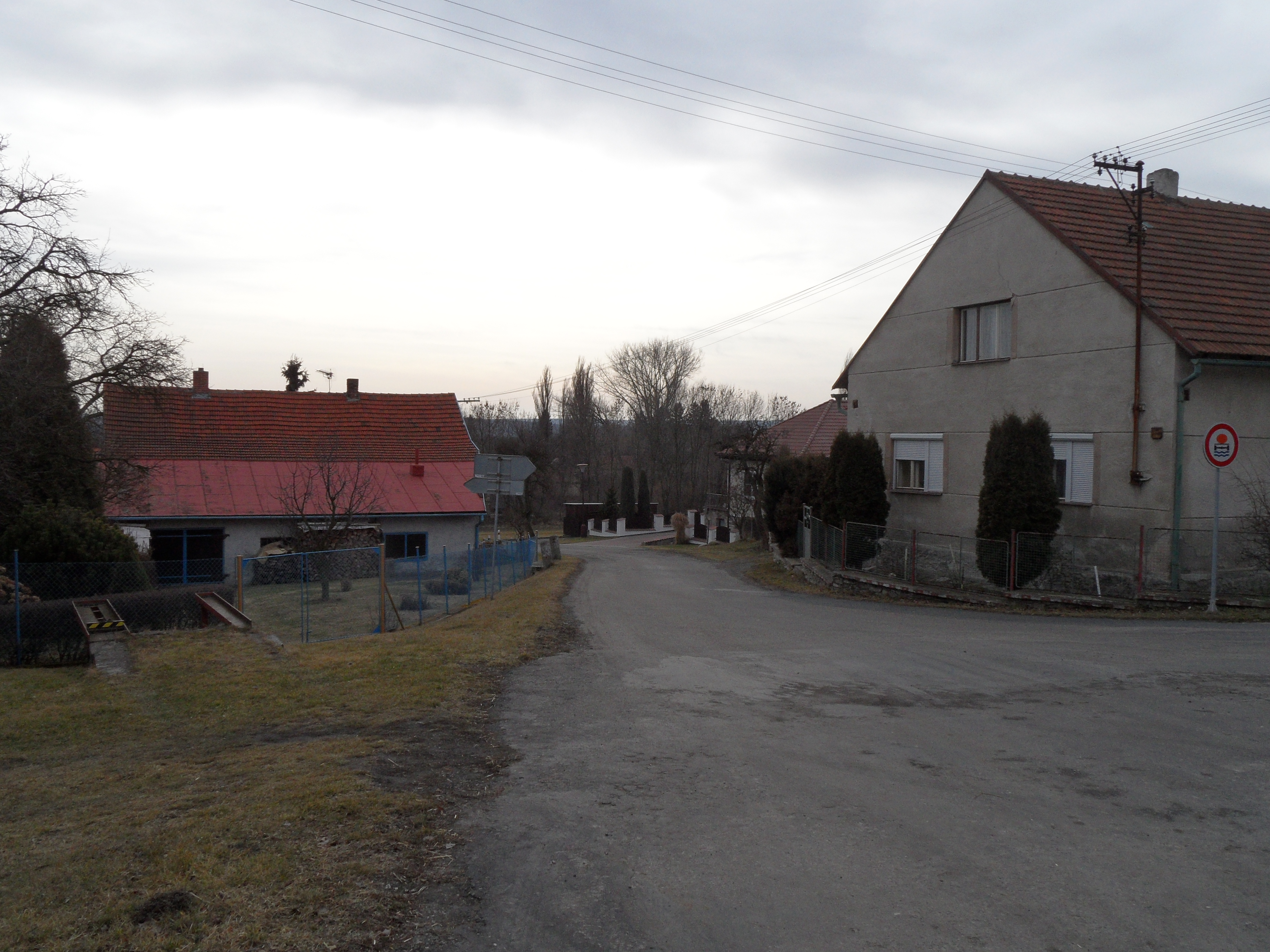 Mezholezy (Miskovice) E. Houses along Road to Nová Lhota, Kutná Hora District, the Czech Republic.